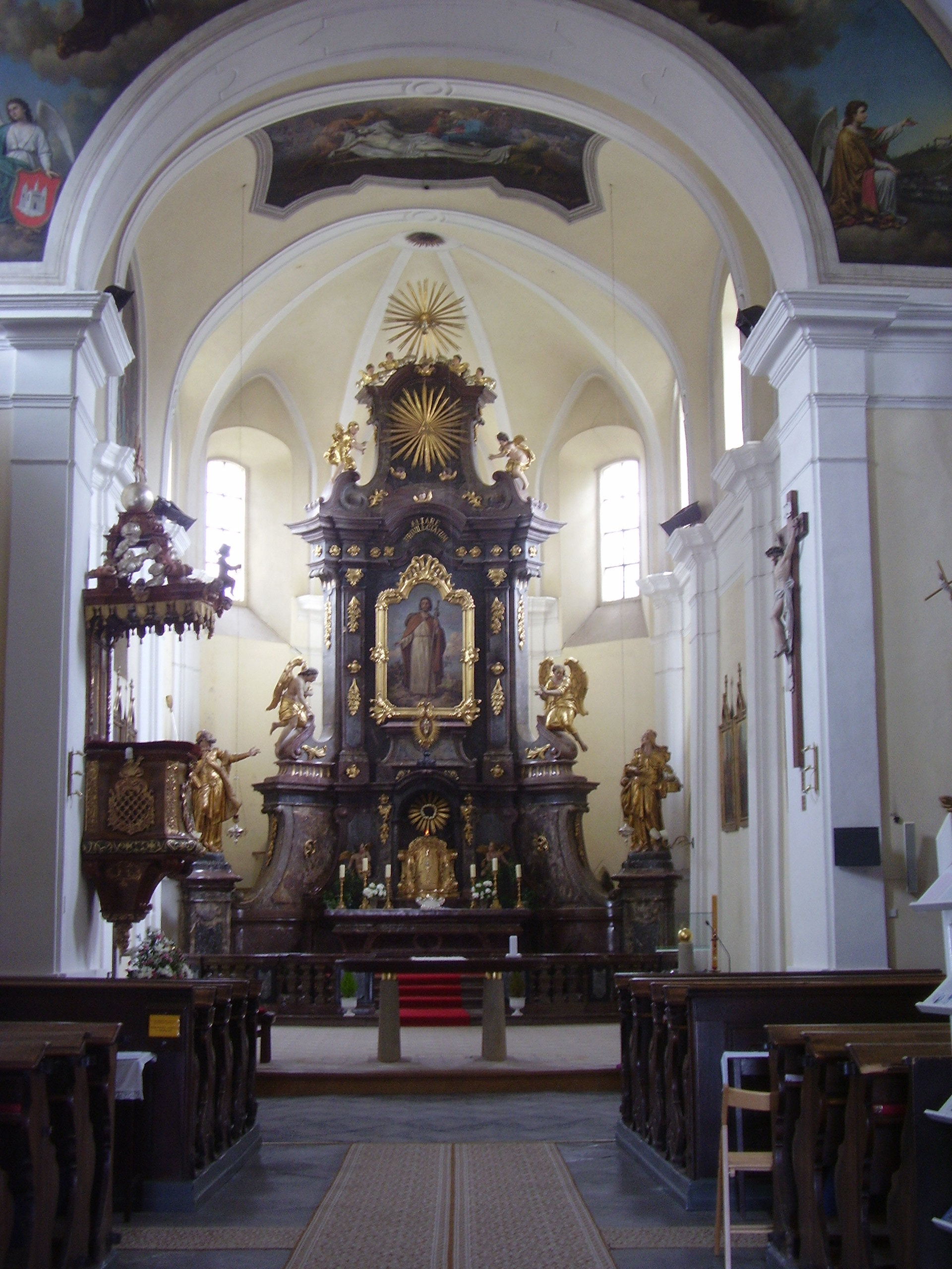 Interior of st. Jakub's church in Příbram